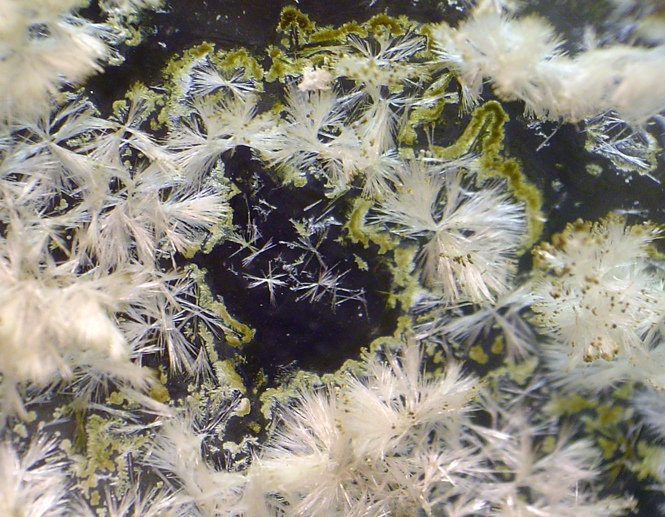 Salvinorin crystals magnified 20X. Extracted from Salvia divinorum leaf using chilled acetone, refined to greater than ~98% purity (white portions) through several sequential washes of the extract solids with small amounts of 99% isopropyl alcohol, dried and then redissolved into acetone for slow evaporation at room temperature to produce crystals. The green impurities (chlorophyll) can be completely eliminated through further washes of the crystalline material with just a few milliliters of 99% isopropyl alcohol. Processed and photographed by C. Hazlett.